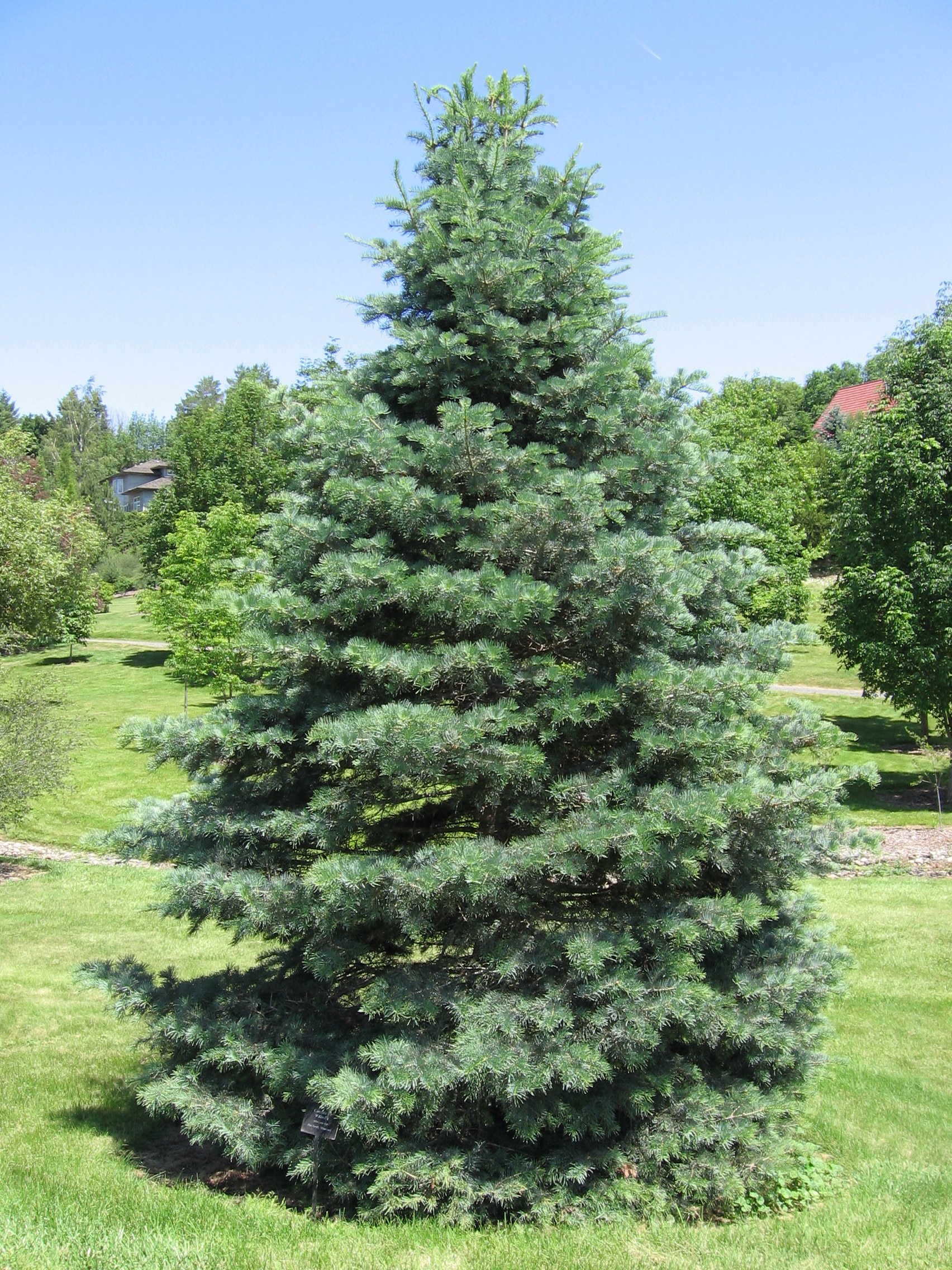 Abies Concolor (White Fir), photographed at the University of Idaho Arboreturm and Botanical Garden